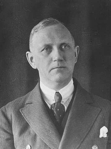 Frøis Frøisland, editor of Norwegian newspaper Aftenposten 1919-30